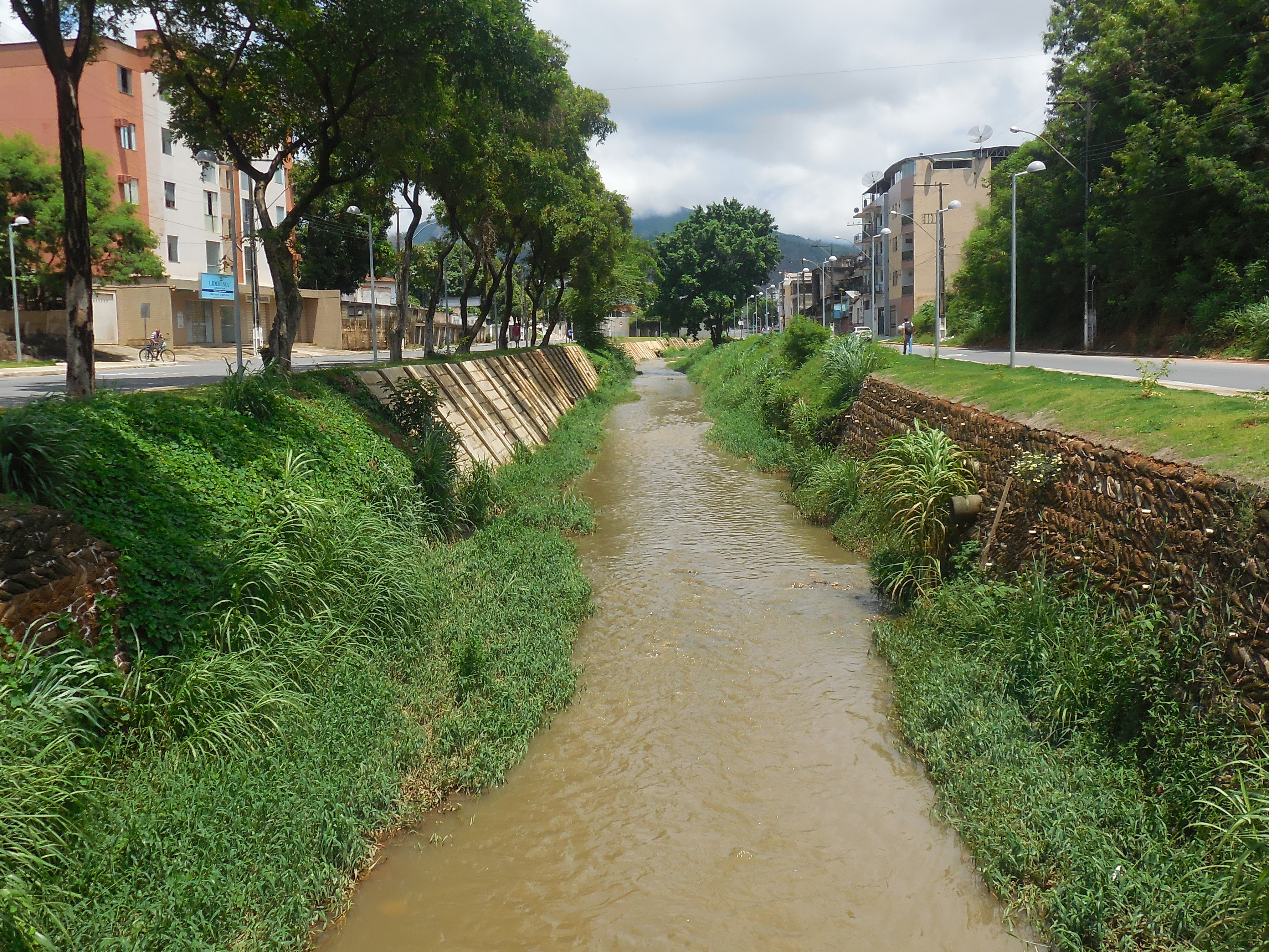 Caladão Stream between the Professores and Bom Jesus neighborhoods, in Coronel Fabriciano, Minas Gerais, Brazil.